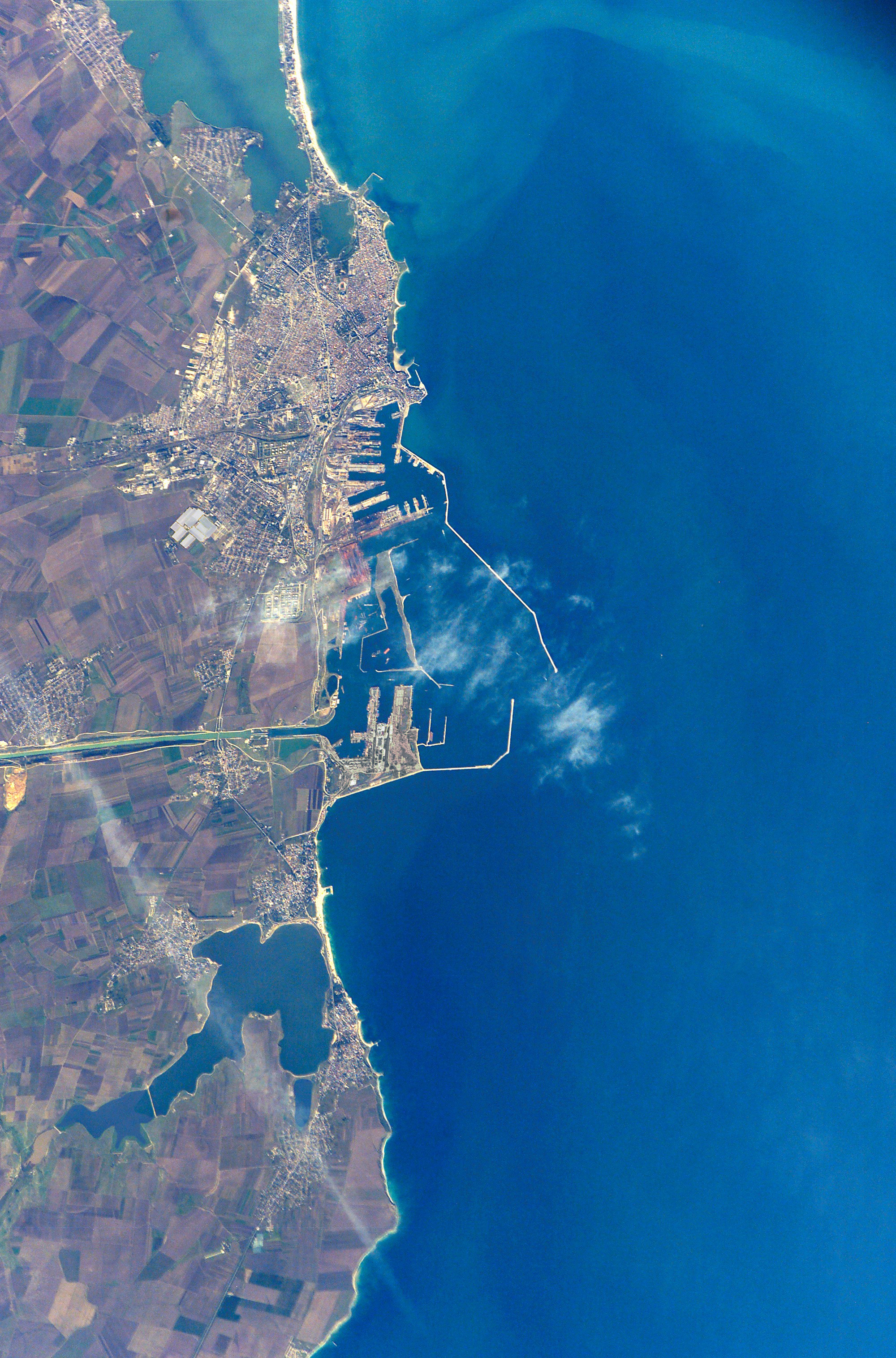 The modern city of Constanţa, with a population of more than 348,000, is located on the western coast of the Black Sea and is the principal seaport for Romania. It is the site of the ancient Greek city of Tomis, colonized in the 6th century B.C. In the 1st century A.D. Tomis became a flourishing provincial capital of the Roman Empire when it acquired its current name from the emperor Constantine I. Today, Constanta is a thriving port-of-entry for Romania, offering both tourist attractions and an expanding, modern port facility that is among the largest on the Black Sea. The crew of STS-112 acquired this detailed digital image of the city on October 17, 2002, using a 400-mm lens. The older part of the city is situated near the large coastal lagoon to the north, while to the south the port facilities are connected to the Danube River’s import shipping commerce via the 64-km Danube – Black Sea Canal. Agricultural fields of mostly wheat and barley extend almost to the shorelines.